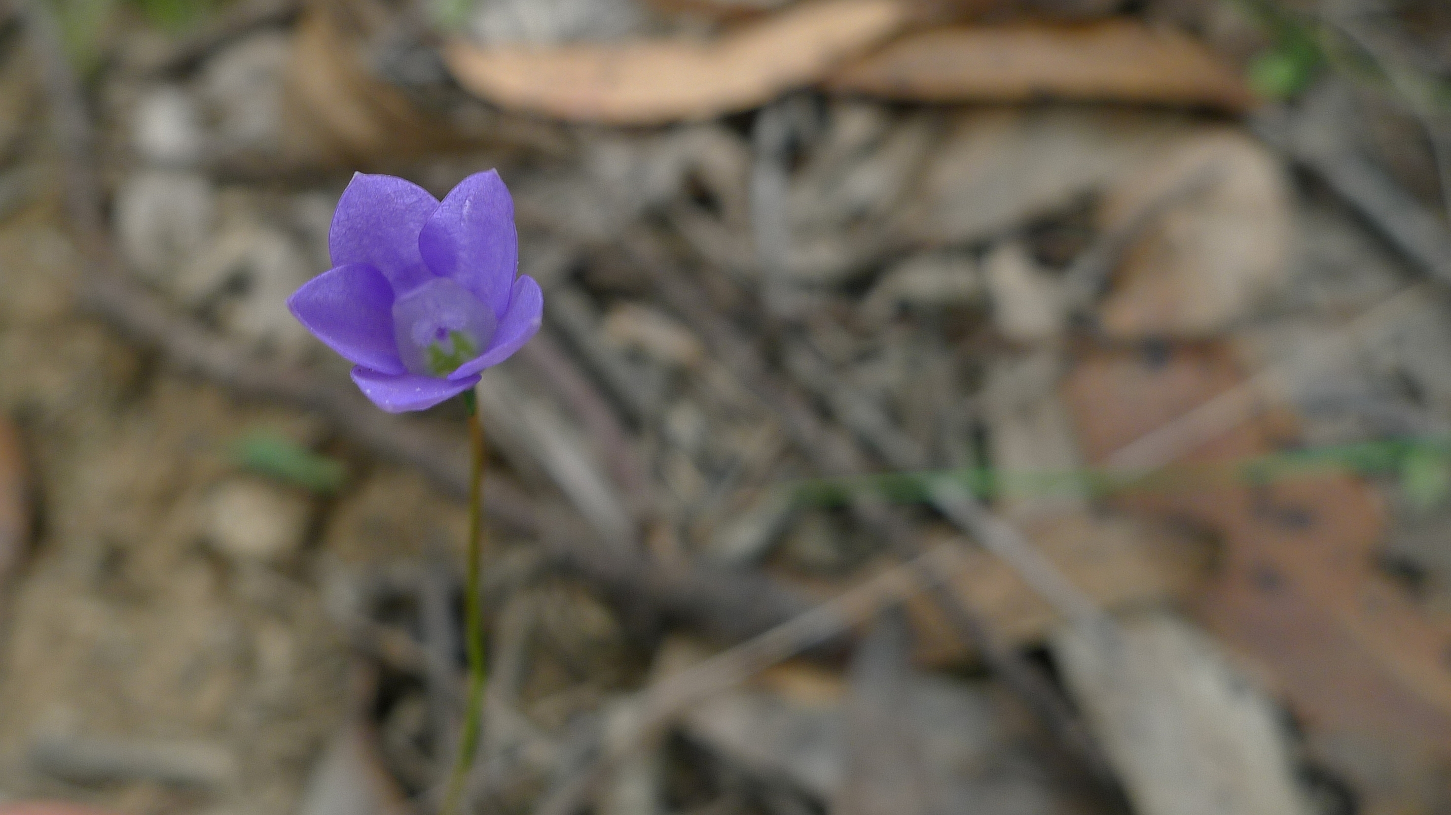 Bluebell, Wahlenbergia littoricola. Tia Falls, Oxley Wild Rivers National Park, NSW Australia, April 2013.